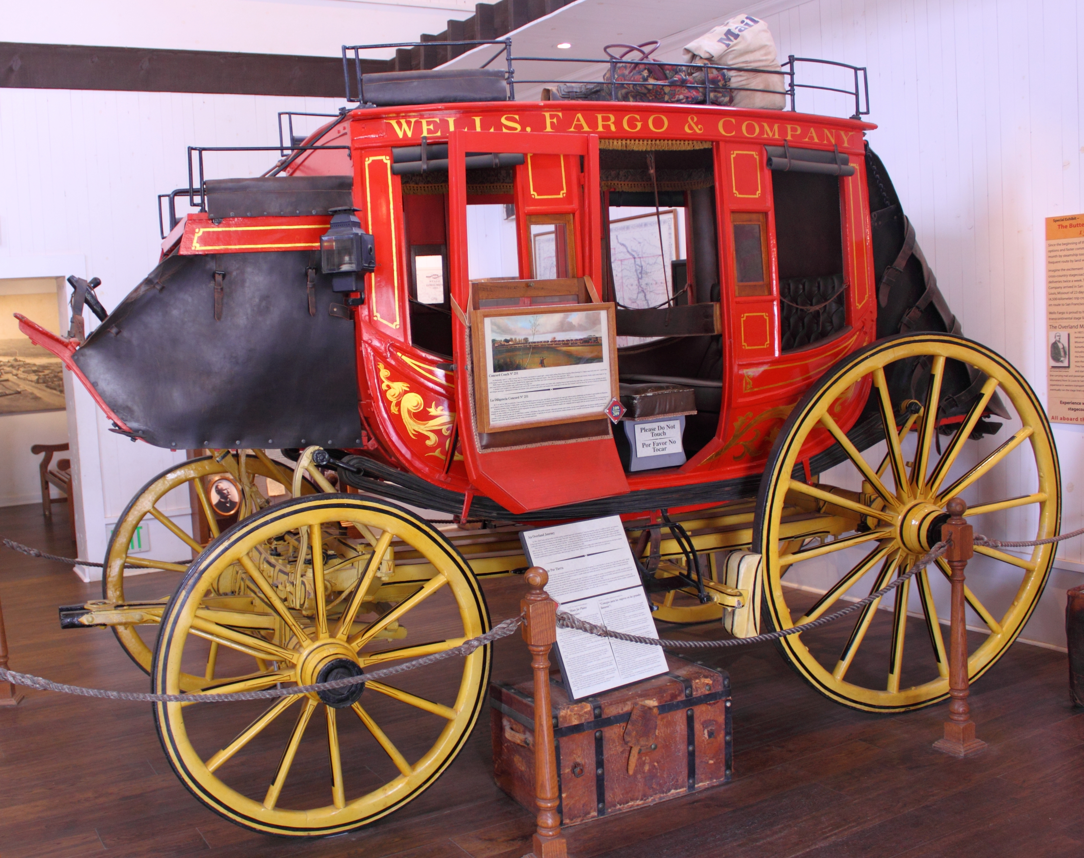 Concord Coach no. 251An original Concord Stage Coach on display at the Wells Fargo History Museum in Old Town San Diego State Historic Park.